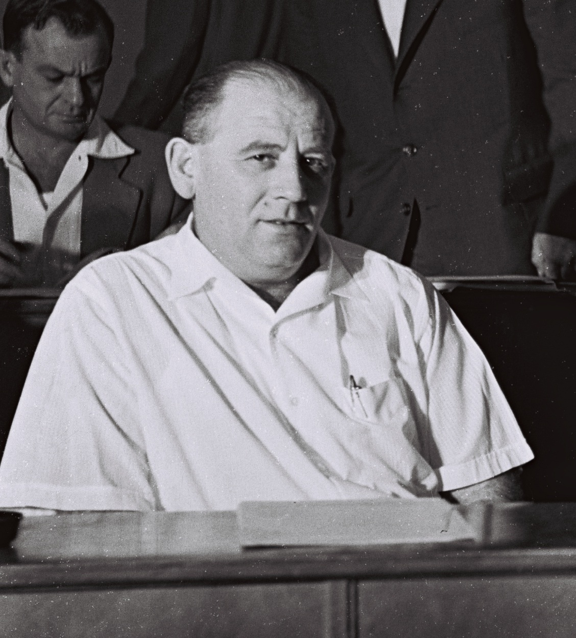 Almogi yosef